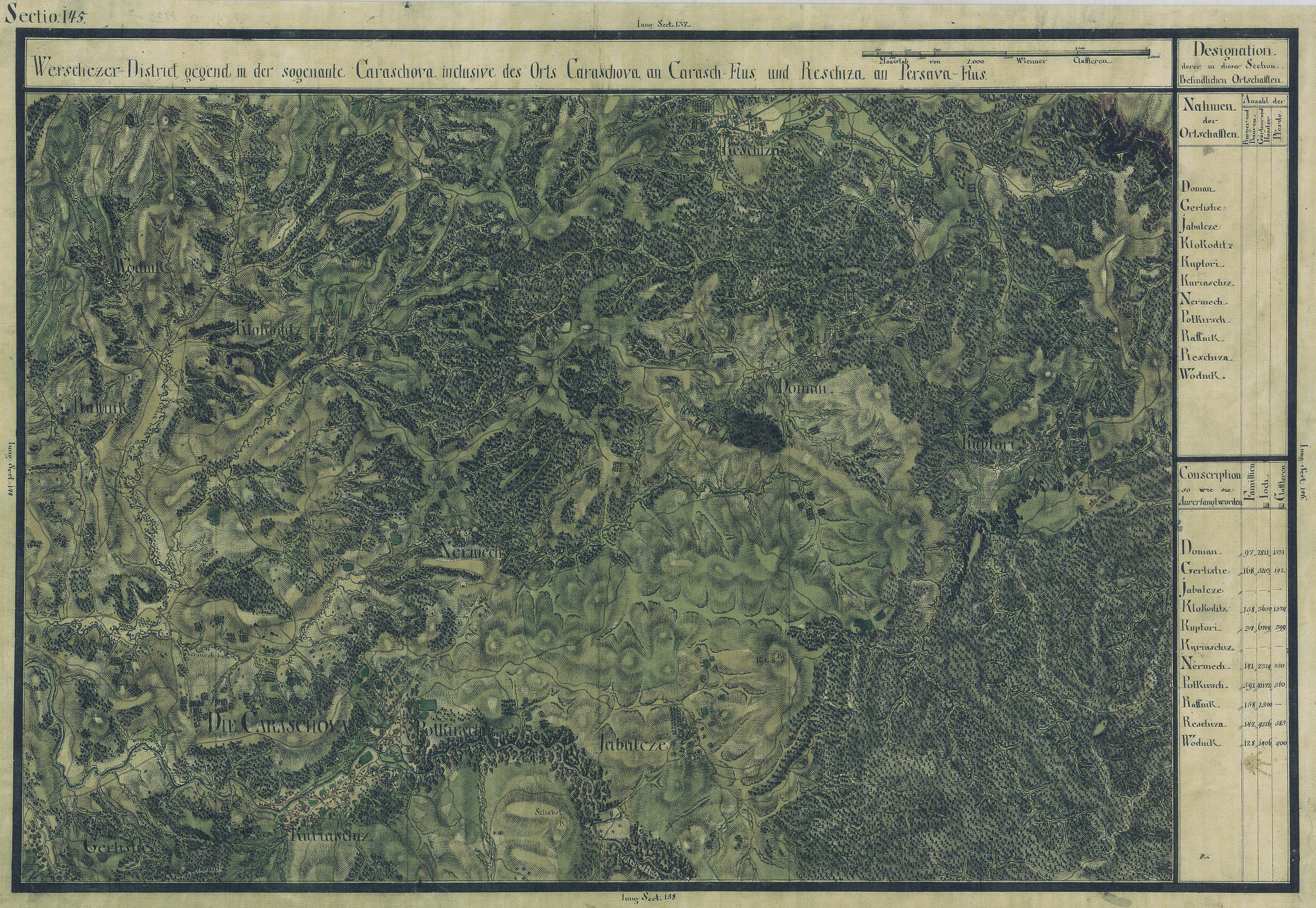 The Banat region in the cadastral maps: Josephinische Landesaufnahme, 1769-72. Josephinische Landaufnahme pg145